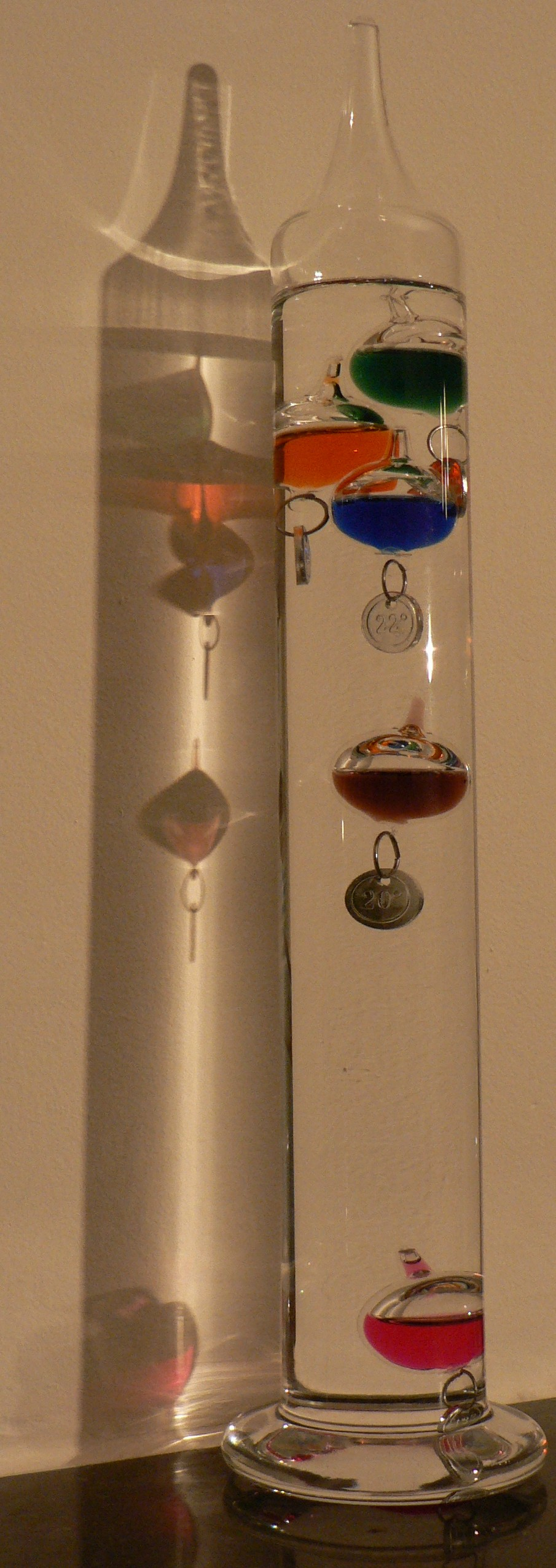 Galilei thermometer